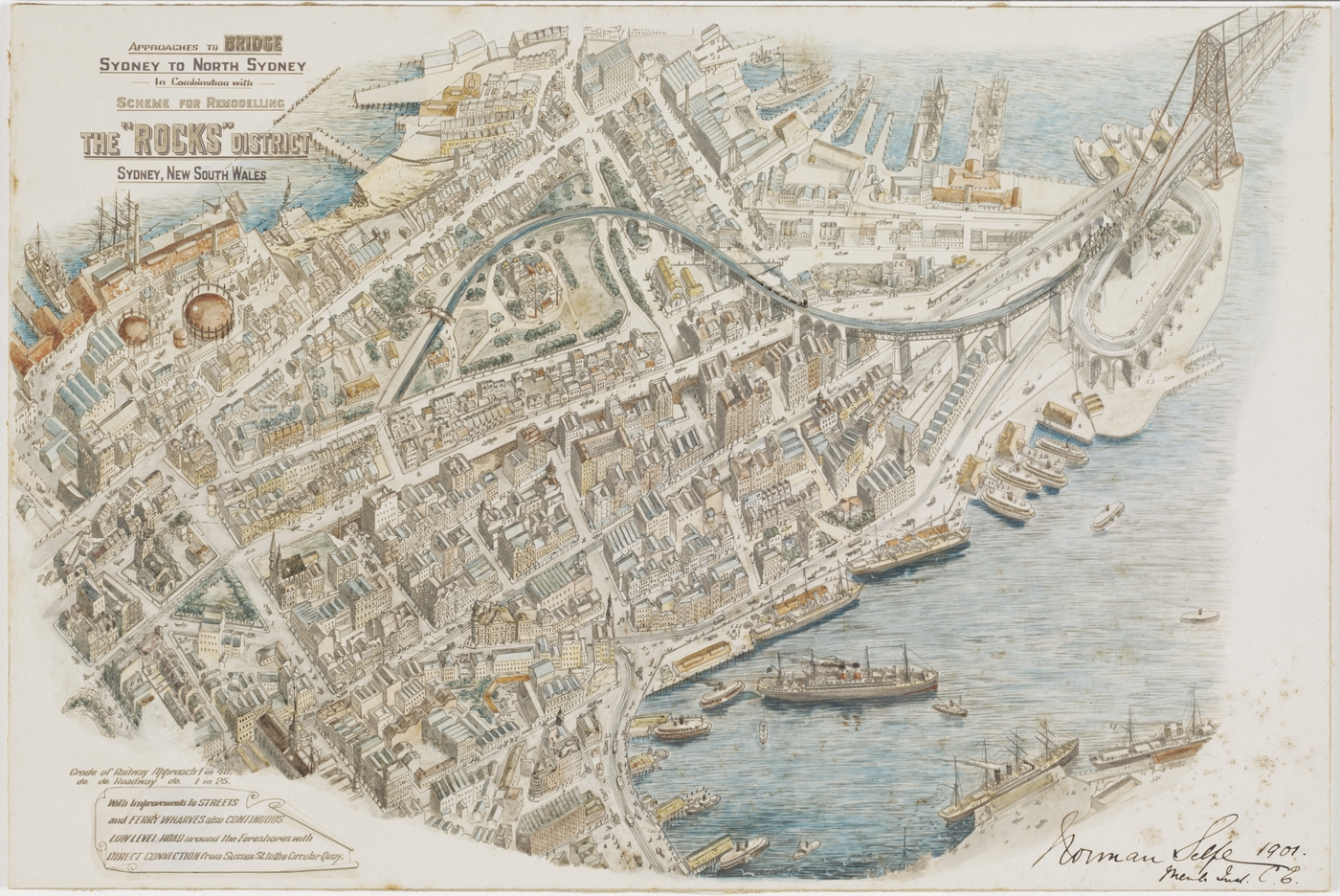 Approaches to bridge Sydney to North Sydney in combination with scheme for remodelling the "Rocks" district / ariel view of remodelling proposal 1891. Printed at lower centre "E. Leggatt / 91". Inscribed in ink at bottom right "Norman Selfe 1901 Memb. Inst. C.E." At bottom left is printed "Grade of Railway Approach 1 in 40. do. do. Roadway do. 1 in 25 / With Improvements to Streets and Ferry Wharves also Continuous Low Level Road around the Foreshores with Direct Connection from Sussex St to the Circular Quay." Possibly a representation of a design submitted to the 1891 Royal Commission on City and Suburban Railways (Q339.5/N Location Mitchell Library), which looked at proposals for bridges across the Harbour. State Library of NSW catalogue Digital order no. a1528551, Call Number SSV / 47